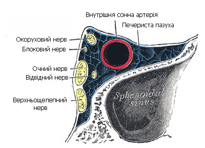 Cavernous sinus with Ukrainian titles